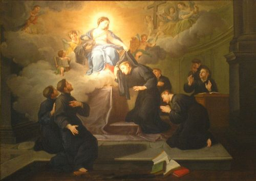 The Seven Holy Founders of the Servite Order receiving their habit from Our Lady, Italian painting, ca. 1700